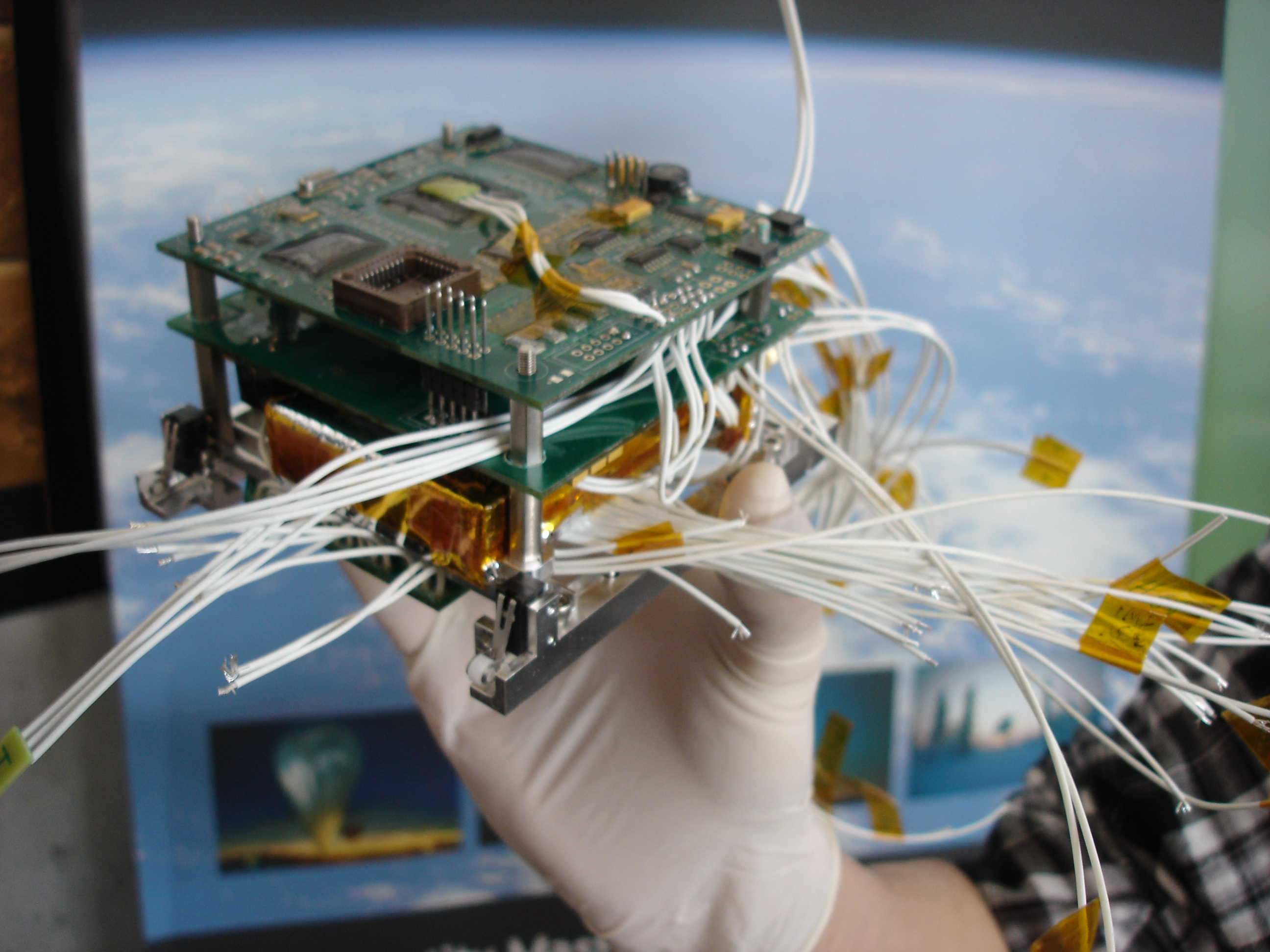 The inside of Uwe-2